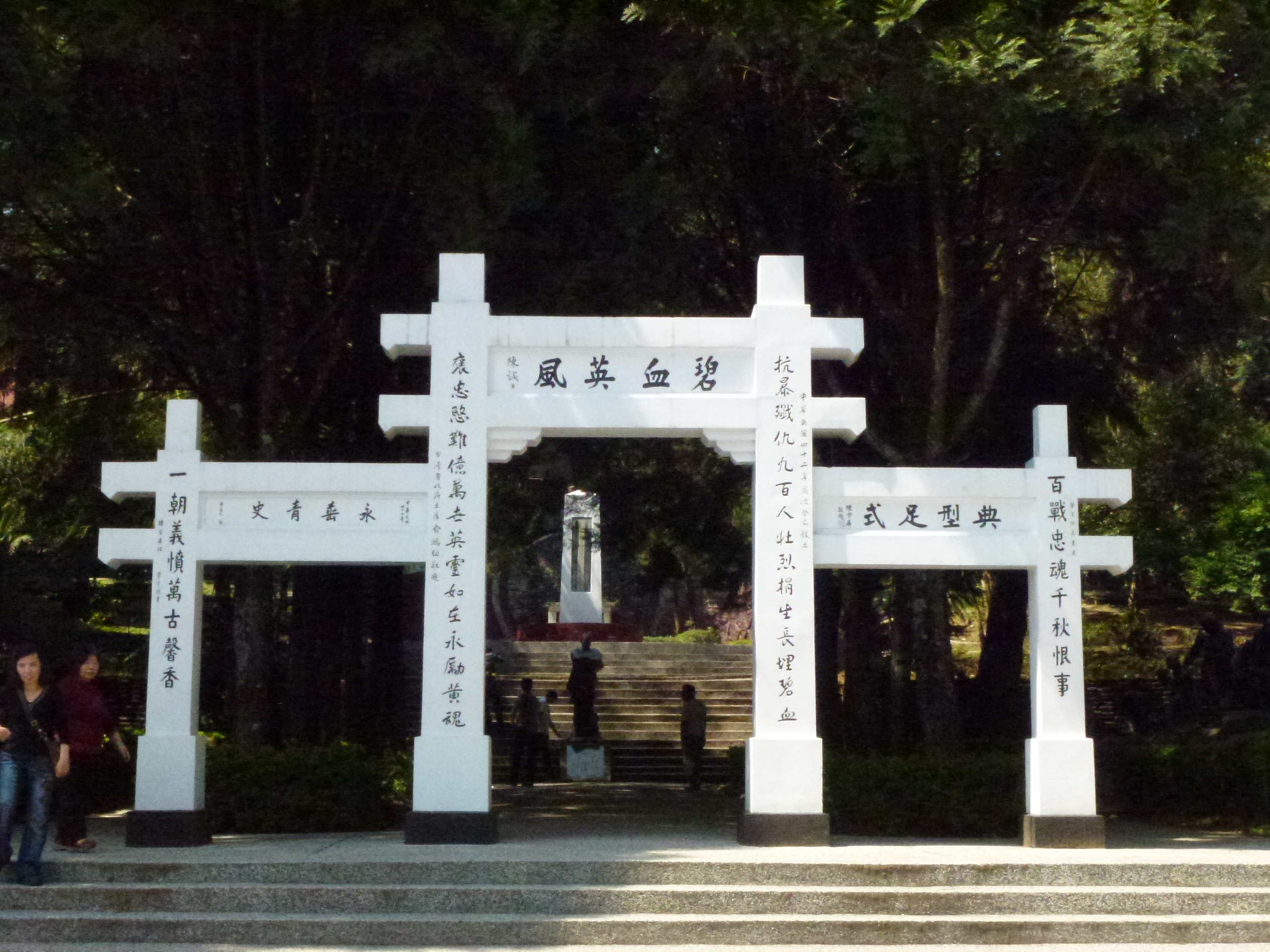 Wushe Incident Memorial Park中文（中国大陆）: 雾社事件纪念公园